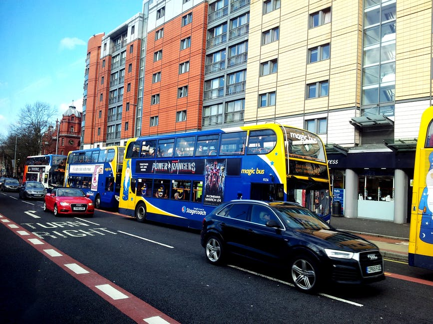 Magic Bus Alexander Dennis Enviro400 in Manchester in 2017